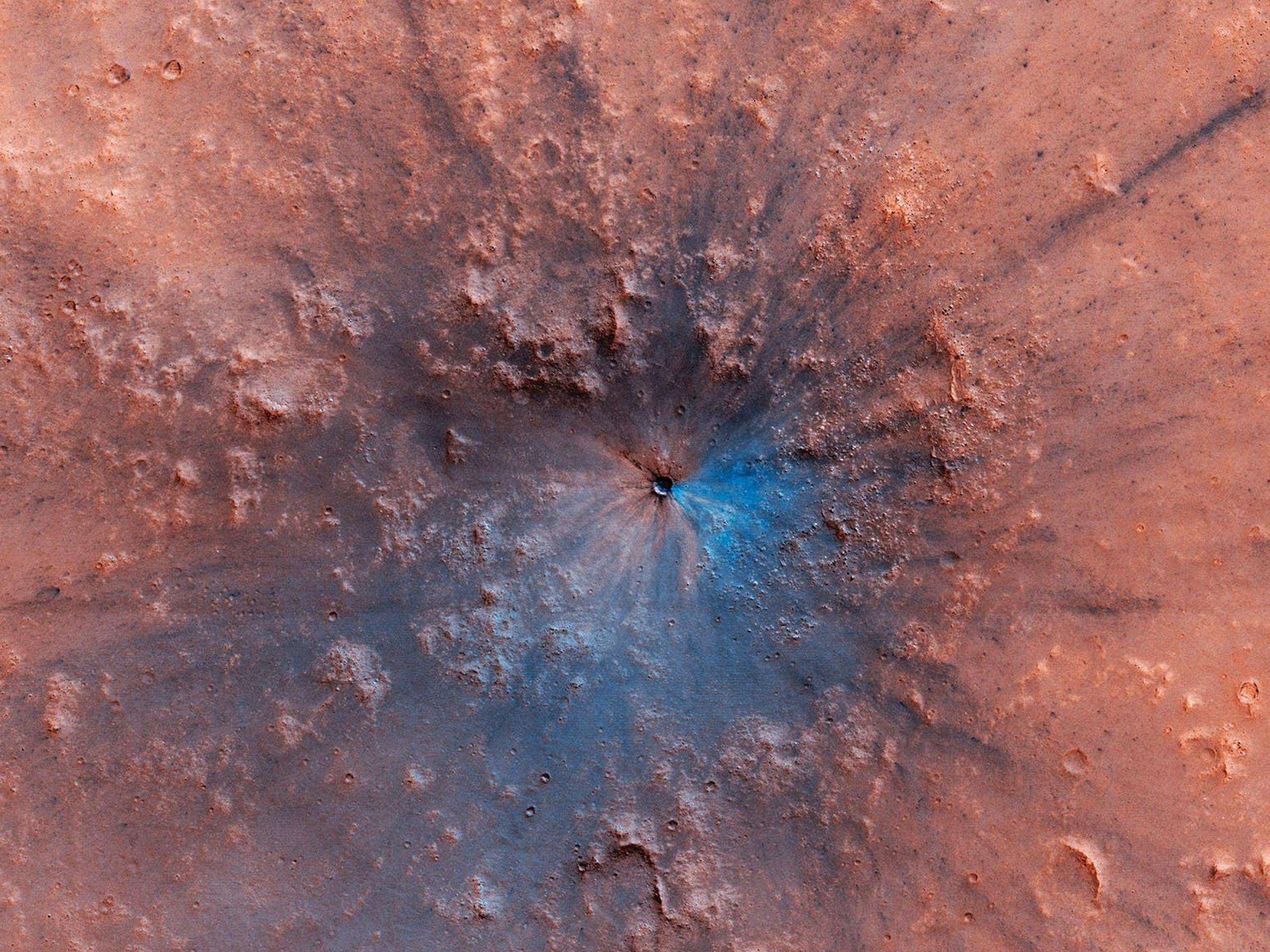 PIA23304: A Work of Art An impressionist painting? No, it's a new impact crater that has appeared on the surface of Mars, formed at most between September 2016 and February 2019. What makes this stand out is the darker material exposed beneath the reddish dust. It looks blue because it’s a false color image, which combines several color filters to enhance differences between material compositions. The light blue indicates an absence of brighter, redder dust where the impact blast scoured the surface, revealing bedrock below. The very bright blue could be ejecta with a different composition that was thrown by the impact. The blue color isn’t ice. This impact was near the equator, not in a region where we’d expect shallow ice below the surface. The University of Arizona, in Tucson, operates HiRISE, which was built by Ball Aerospace & Technologies Corp., in Boulder, Colorado. NASA's Jet Propulsion Laboratory, a division of Caltech in Pasadena, California, manages the Mars Reconnaissance Orbiter Project for NASA's Science Mission Directorate, Washington.